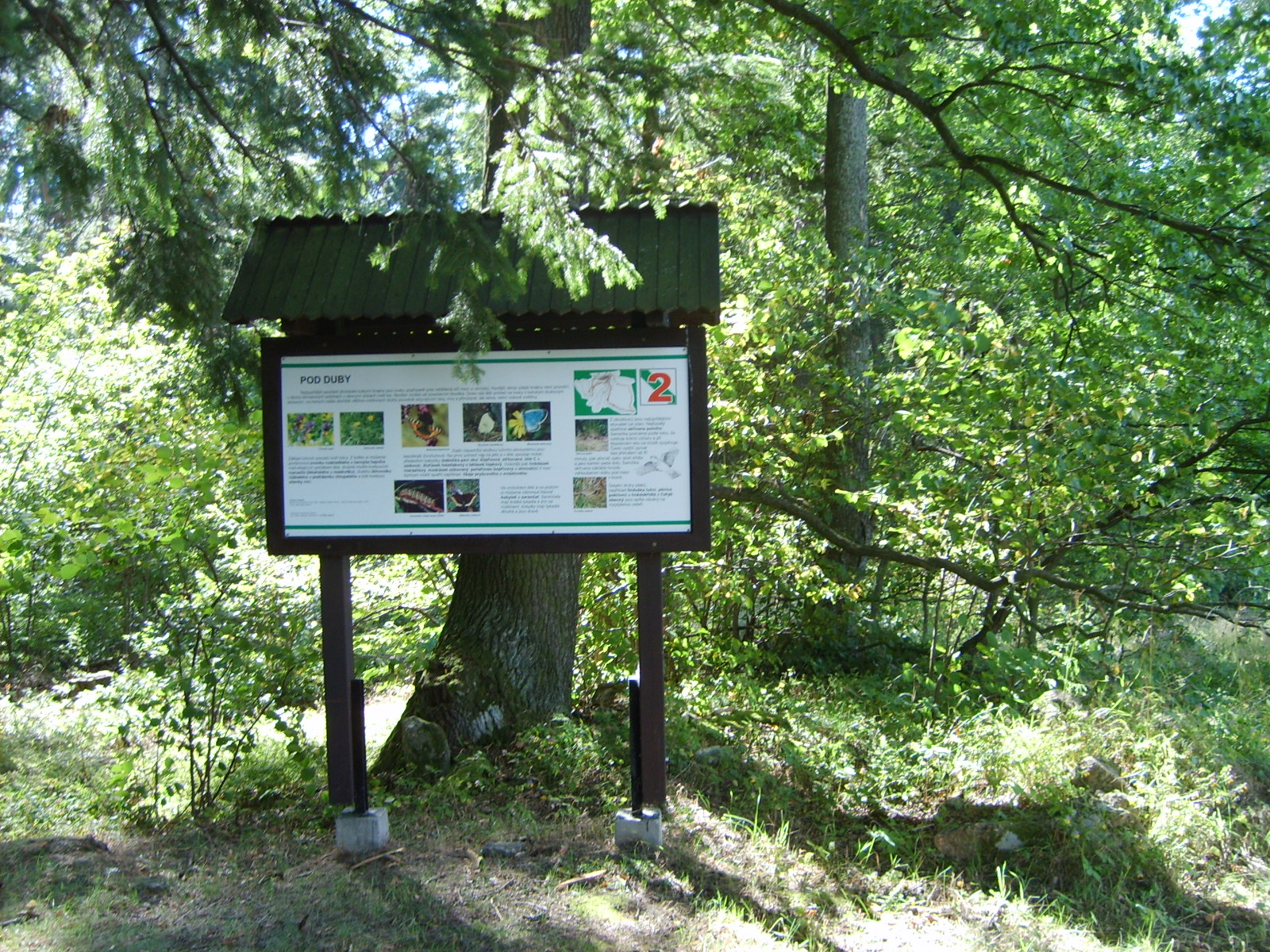 Educational trail in valley of the Černá near Benešov nad Černou.